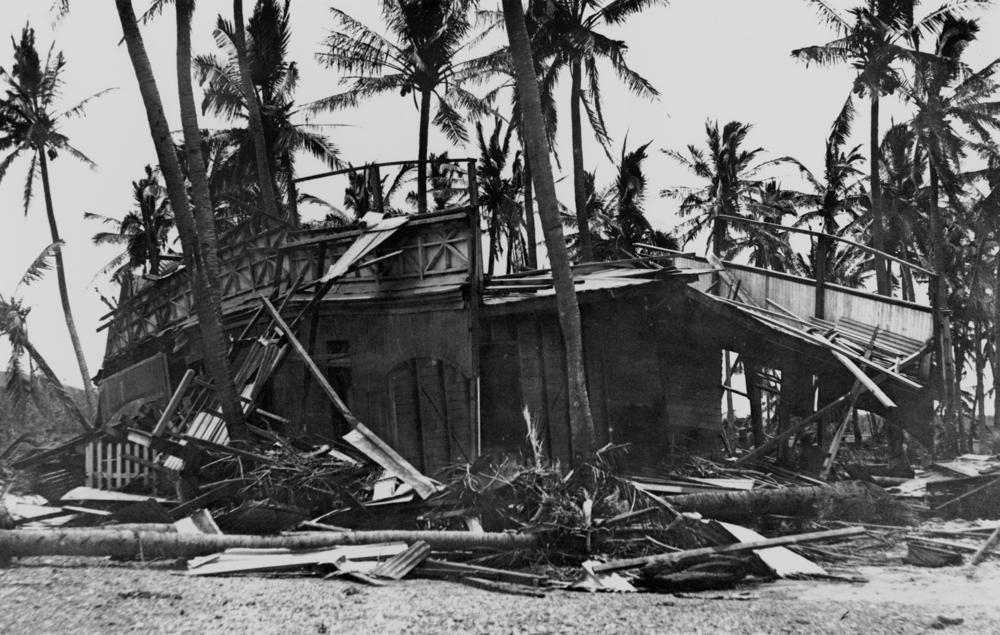 Creator: Unidentified Location: North Mackay, Queensland Description: The Cremorne Hotel was built in 1884 by John Greenwood Barnes. The hotel was a two-storeyed structure with a promenade deck on the roof. Damaged in the January 1898 cyclone Eline, it was demolished by the January 1918 cyclone. View this page at the State Library of Queensland: Information about State Library of Queensland’s collection